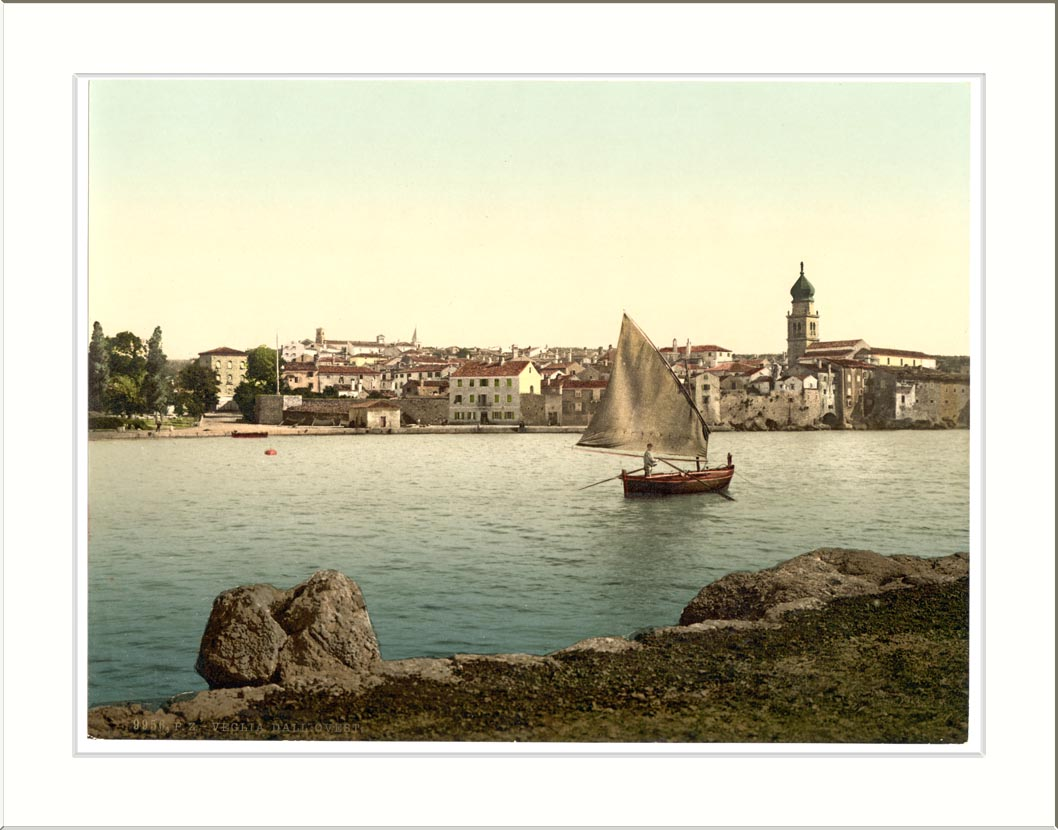 between ca. 1890 and ca. 1900. Detroit Publishing Company 1905. Print no. 9956. Views of the Austro-Hungarian Empire 1 photomechanical print : photochrom color. Library of Congress Prints and Photographs Division Washington D.C. 20540 USA Veglia from the west Austro-Hungary between ca. 1890 and ca. 1900. Detroit Publishing Company 1905. Print no. 9956. Views of the Austro-Hungarian Empire 1 photomechanical print : photochrom color. Library of Congress Prints and Photographs Division Washington D.C. 20540 USA